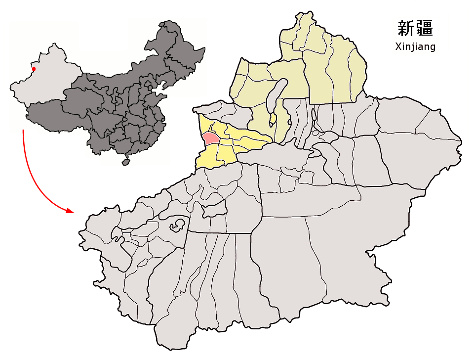 Location of Qapqal County (pink) and Ili Prefecture (yellow: subdivisions under direct administration of Ili Prefecture, ecru: subdivisions under administration of Tacheng and Altay Prefectures) within Xinjiang autonomous region of China Map drawn in september 2007 using various sources, mainly : Xinjiang Uygur autonomous region administrative regions GIS data: 1:1M, County level, 1990 Xinjiang Counties map from